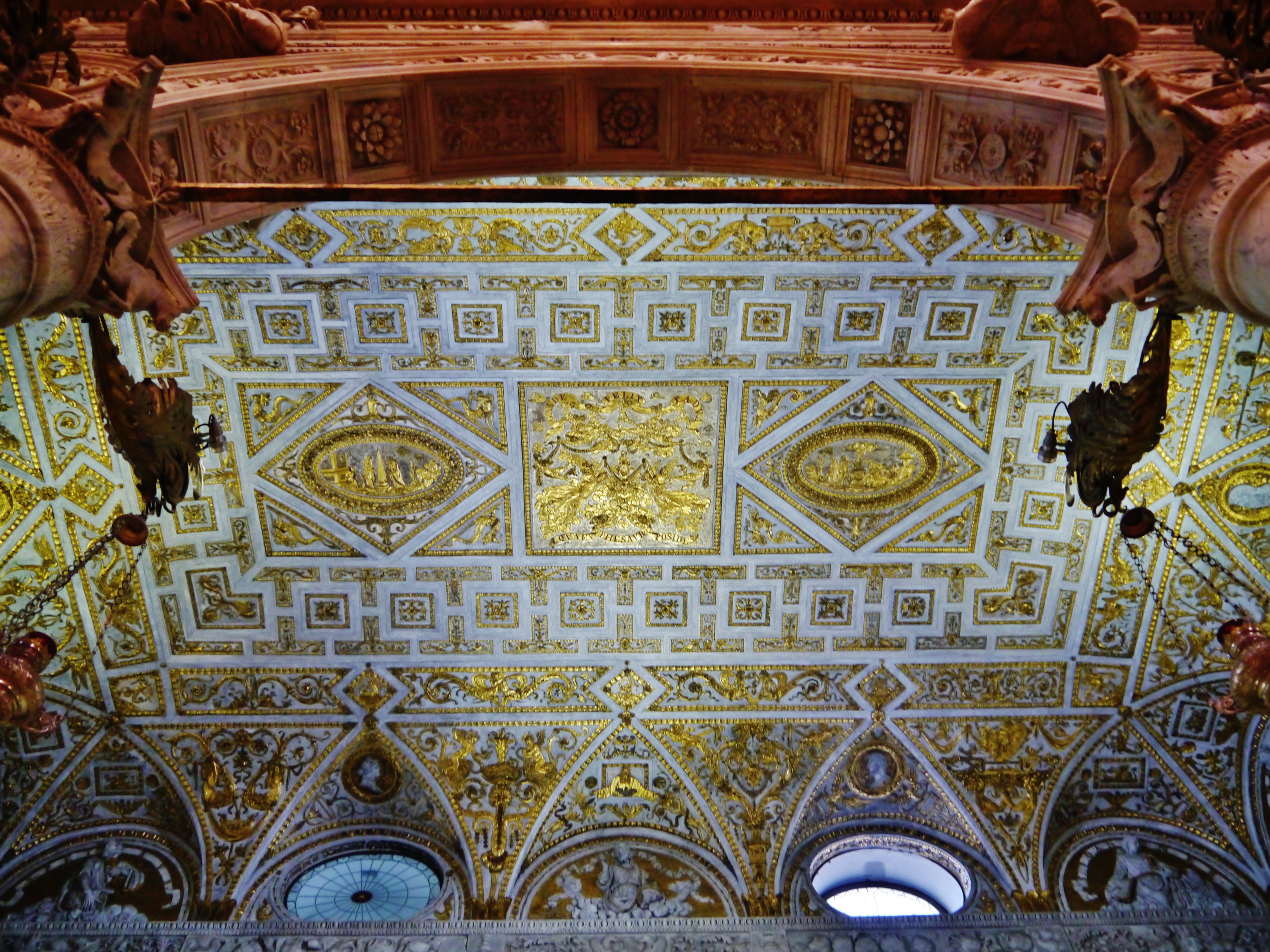 Ceiling of the Chapel of St. Anthony of the Basilica of St. Anthony, Padua, Province of Padua, Region of Veneto, Italy